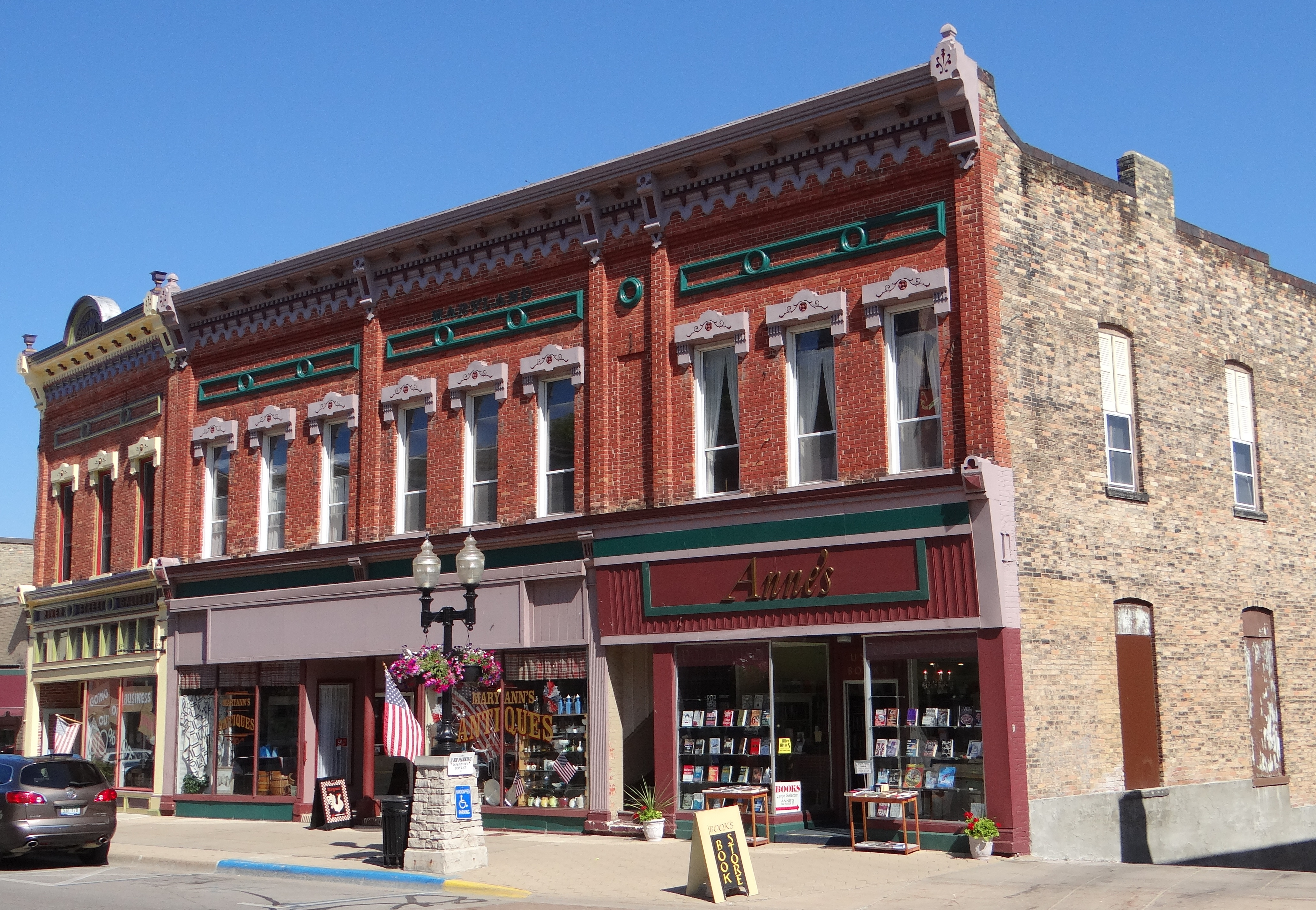 Maryland Building on River Street in the downtown business district of Manistee, Michigan